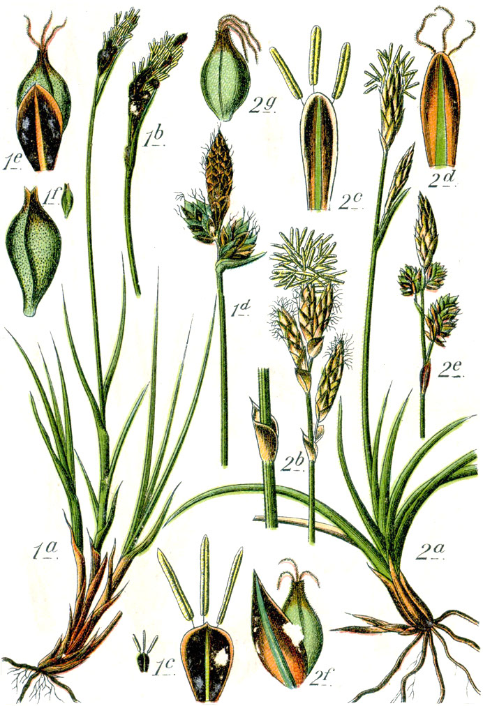 1. Carex montana L. 2. Carex caryophyllea Latourr. var. caryophyllea, syn. Carex verna Chaix, nom. ill. Original Caption 1. Berg-Segge, Carex montana 2. Frühlings-Segge, Carex verna